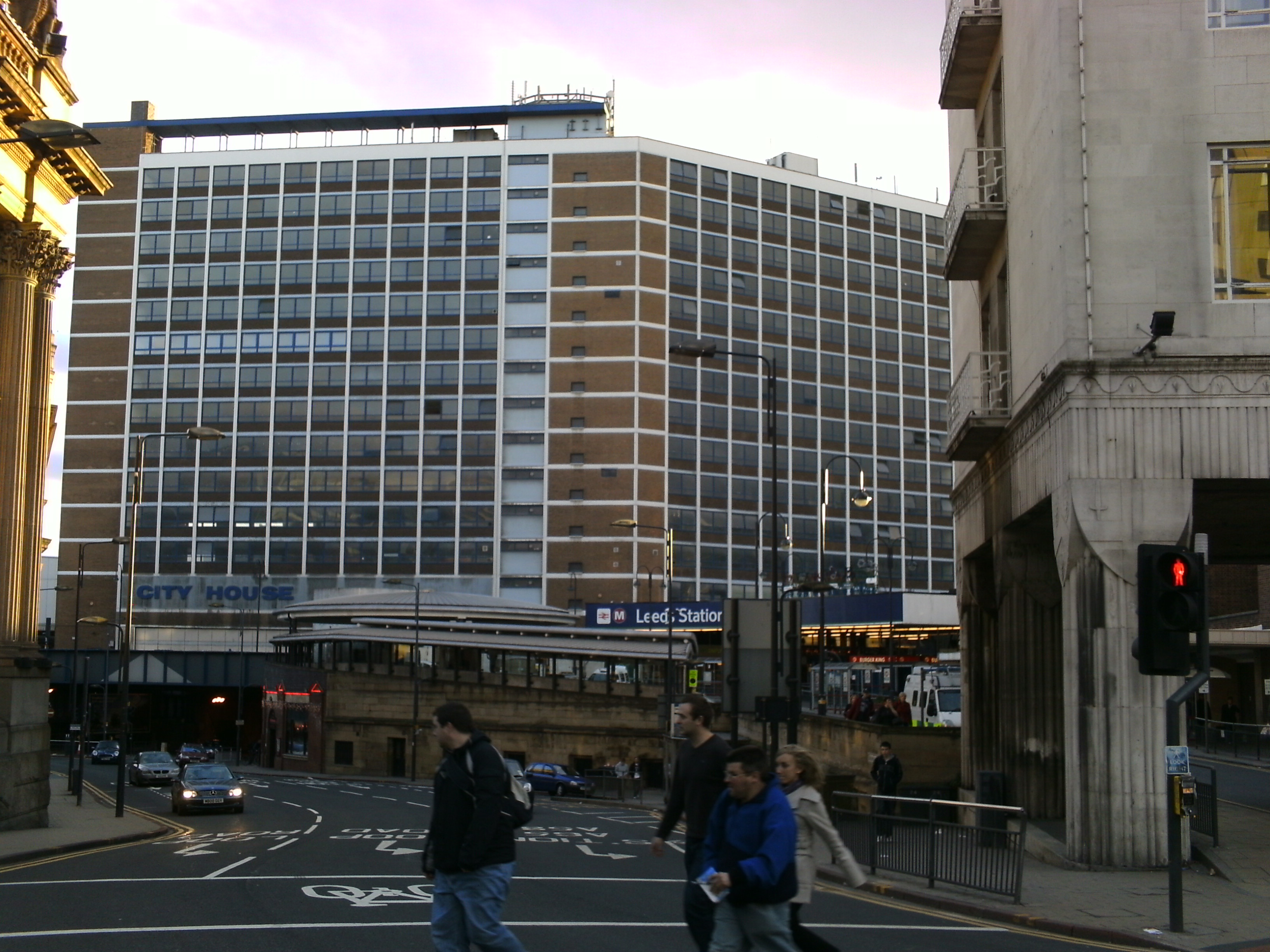 Leeds City Station, from City Square, showing City House.